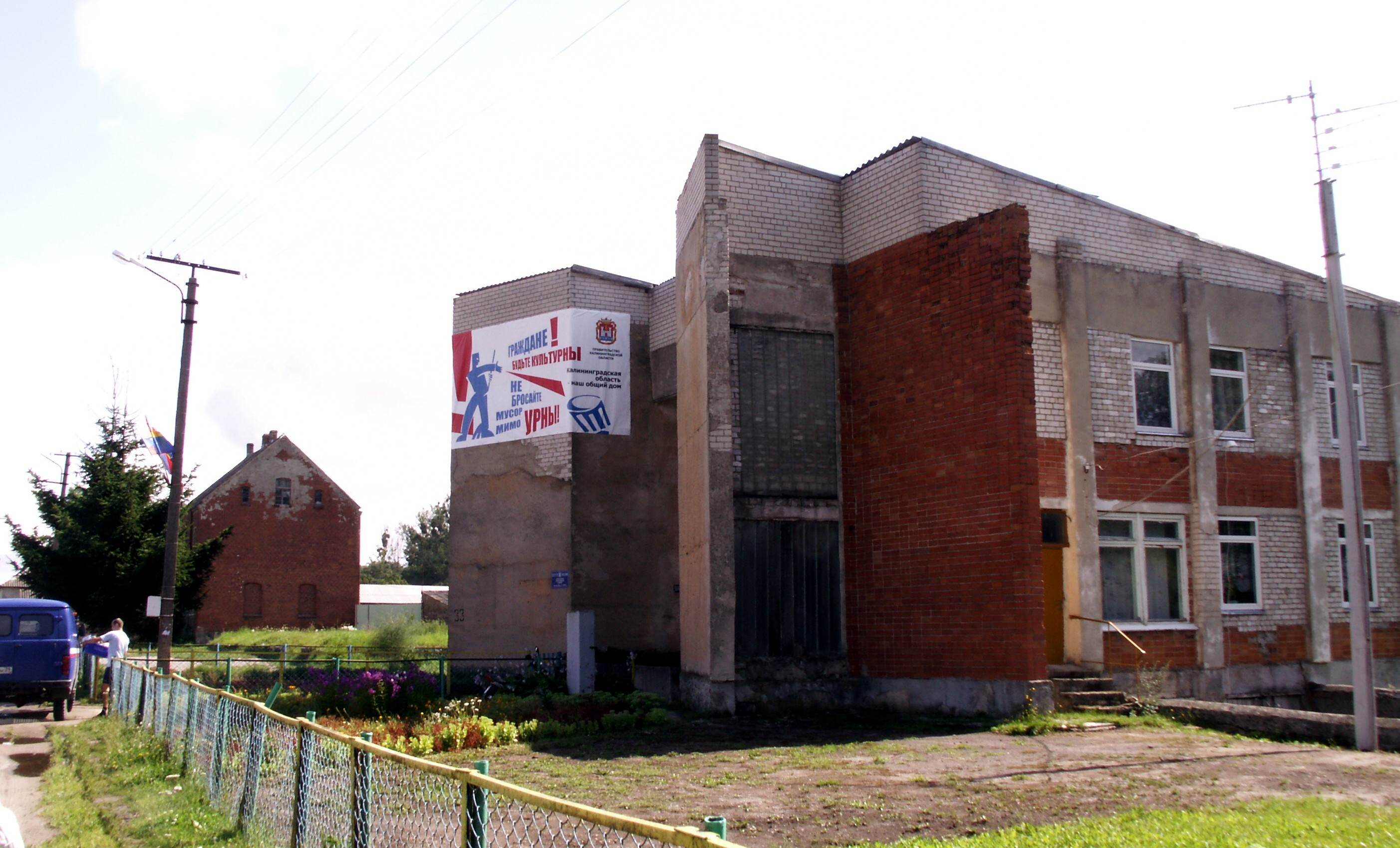 Chistye Prudy, Kaliningrad Oblast self governement in Kaliningrad oblast